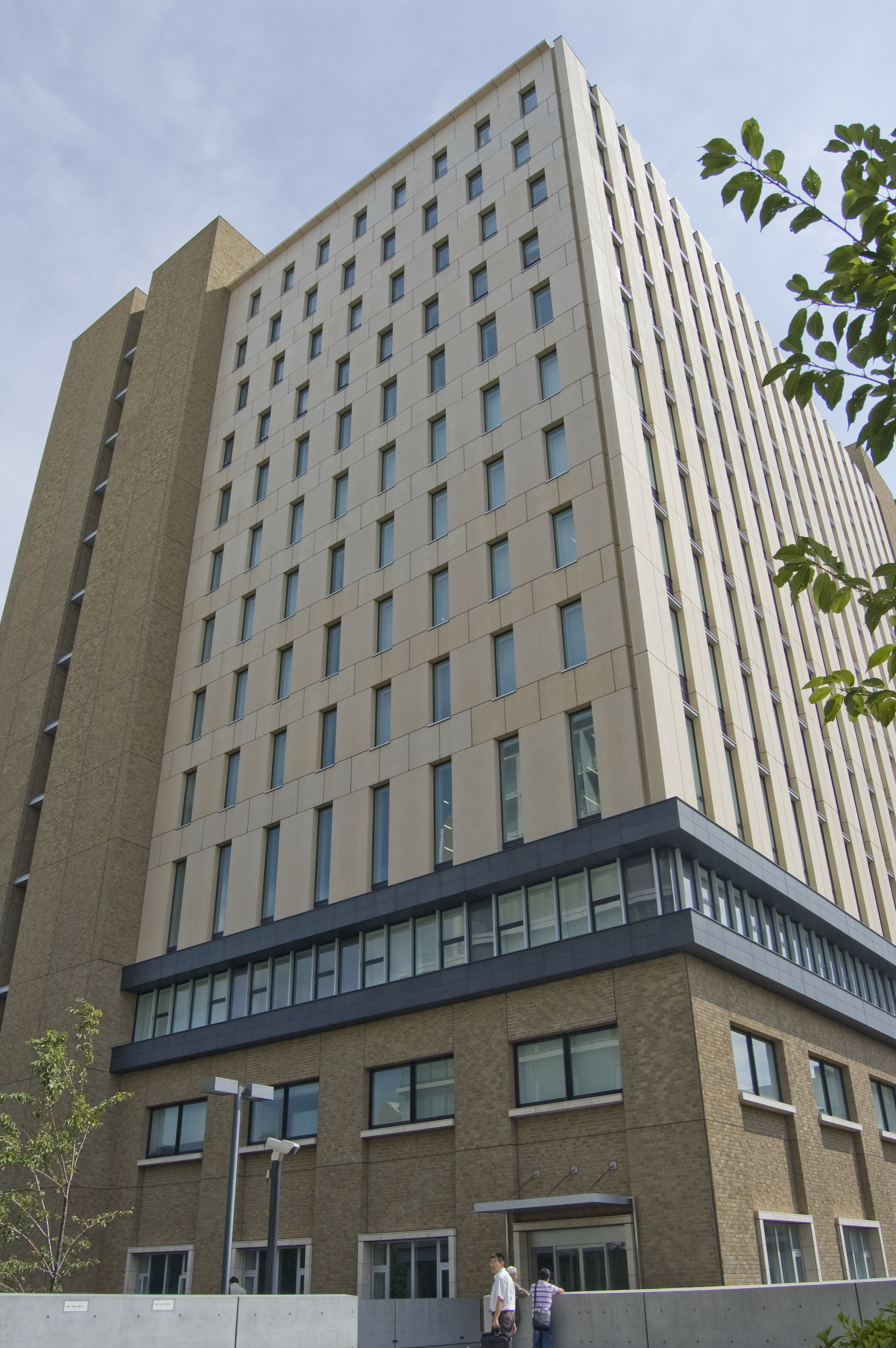 School of Commerce, School of International Liberal Studies